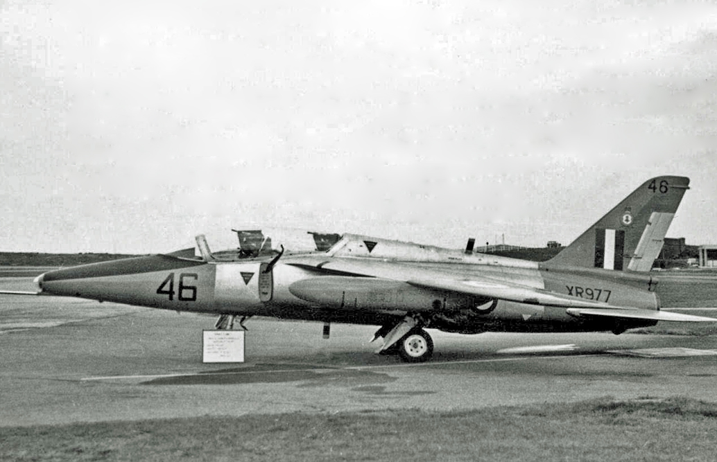 Operational Folland Gnat T.1 trainer of No. 4 FTS at RAF Valley in 1967